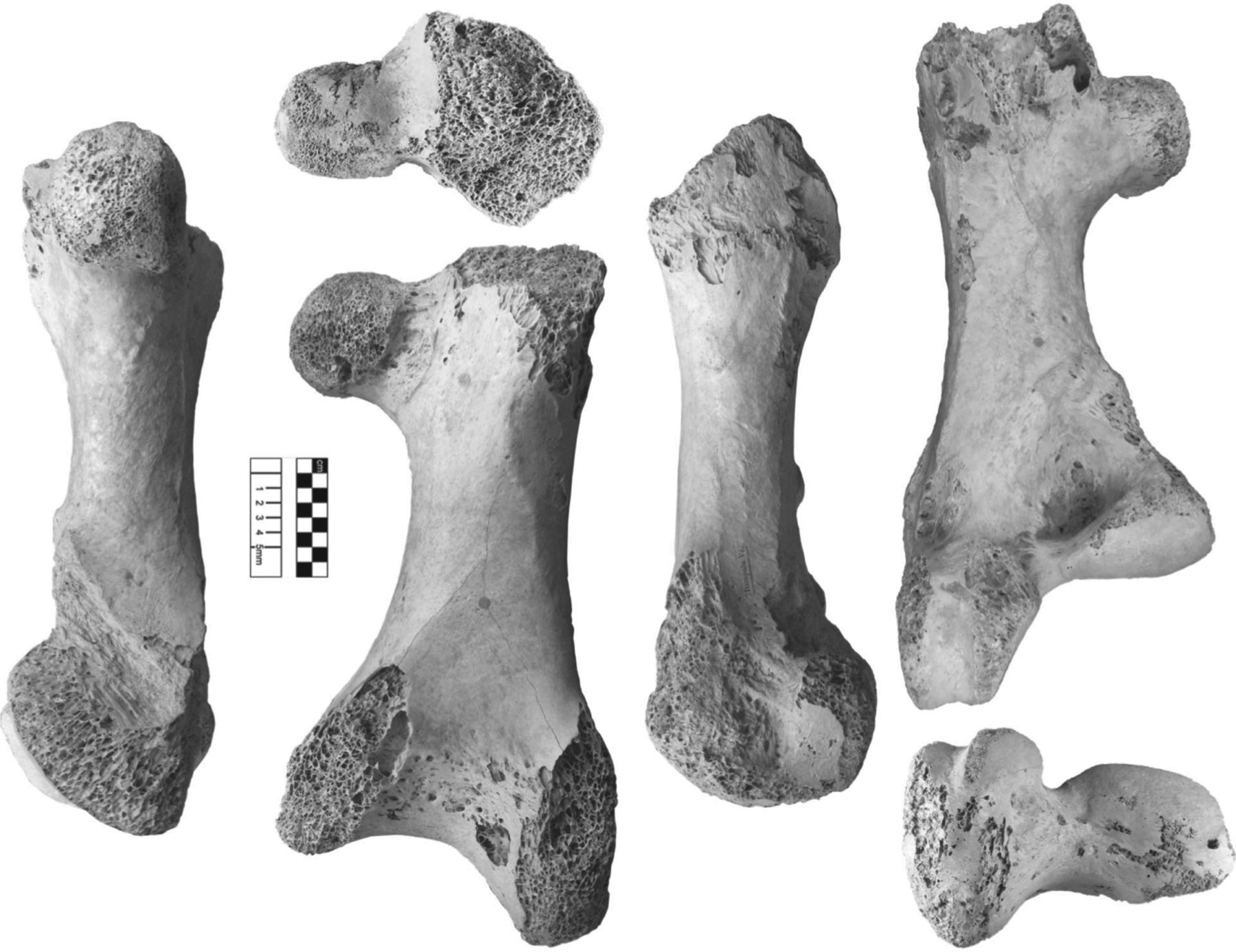 Vorombe titan, femur (NHMUK A439), Itampolo (Itampulu Vé), Madagascar; part of syntype series.